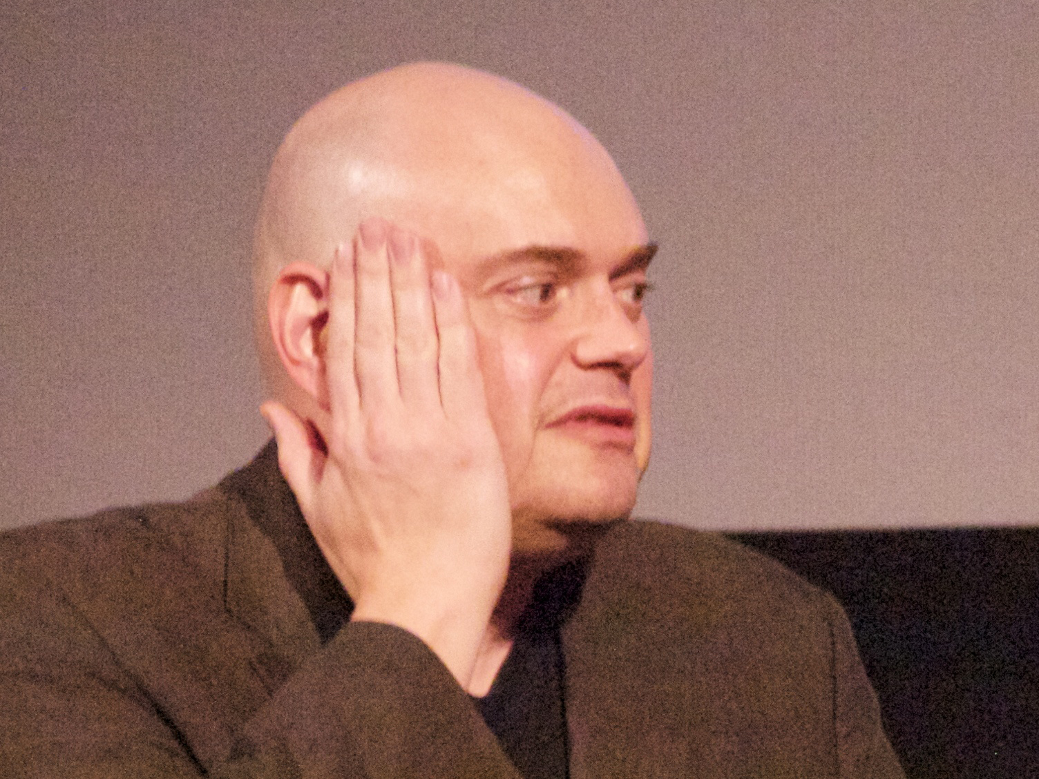 Lilly Wachowski at the Fantastic Fest screening of Cloud Atlas.